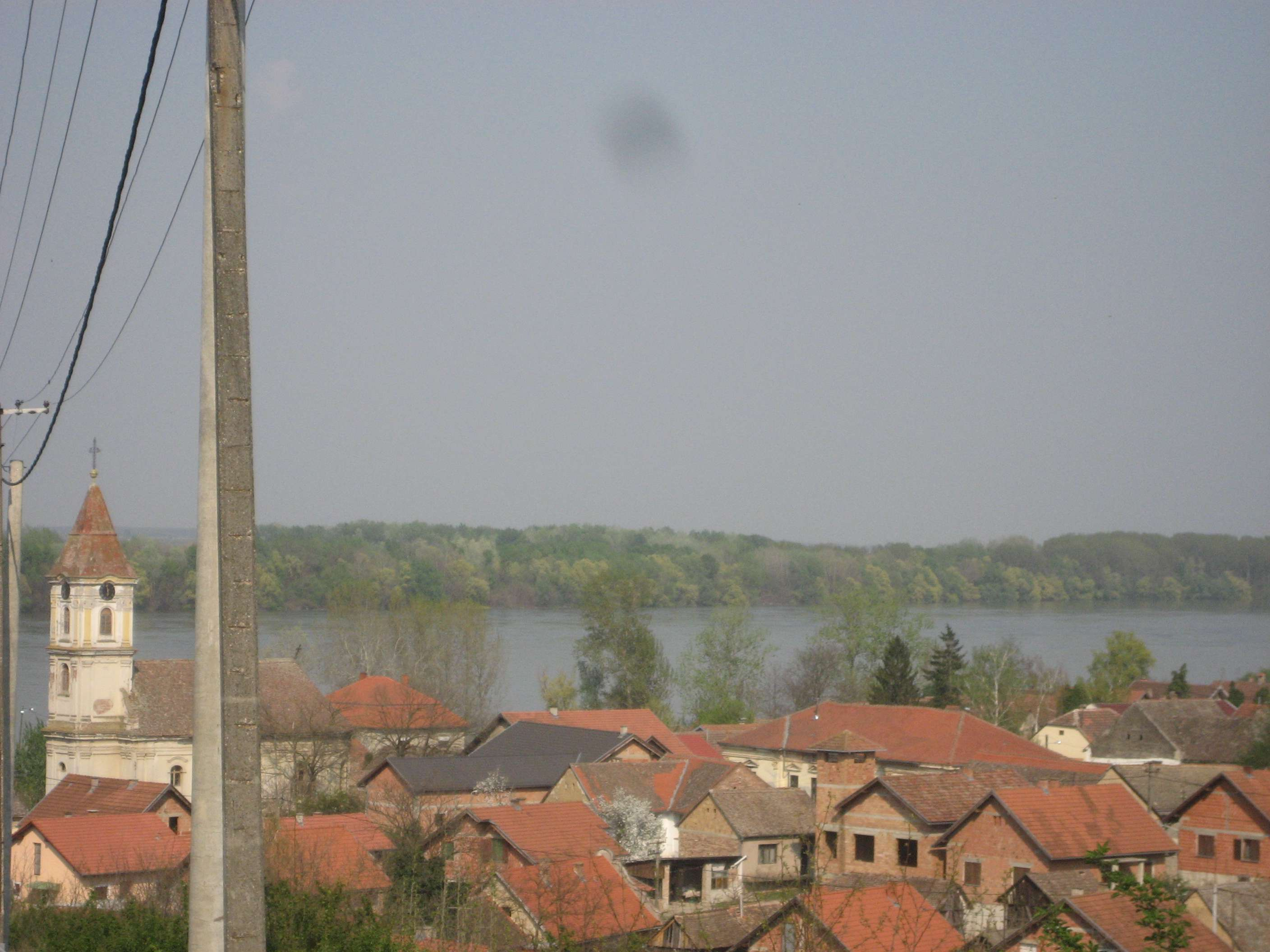 Village of Sarengrad, at the Danube, Croatia